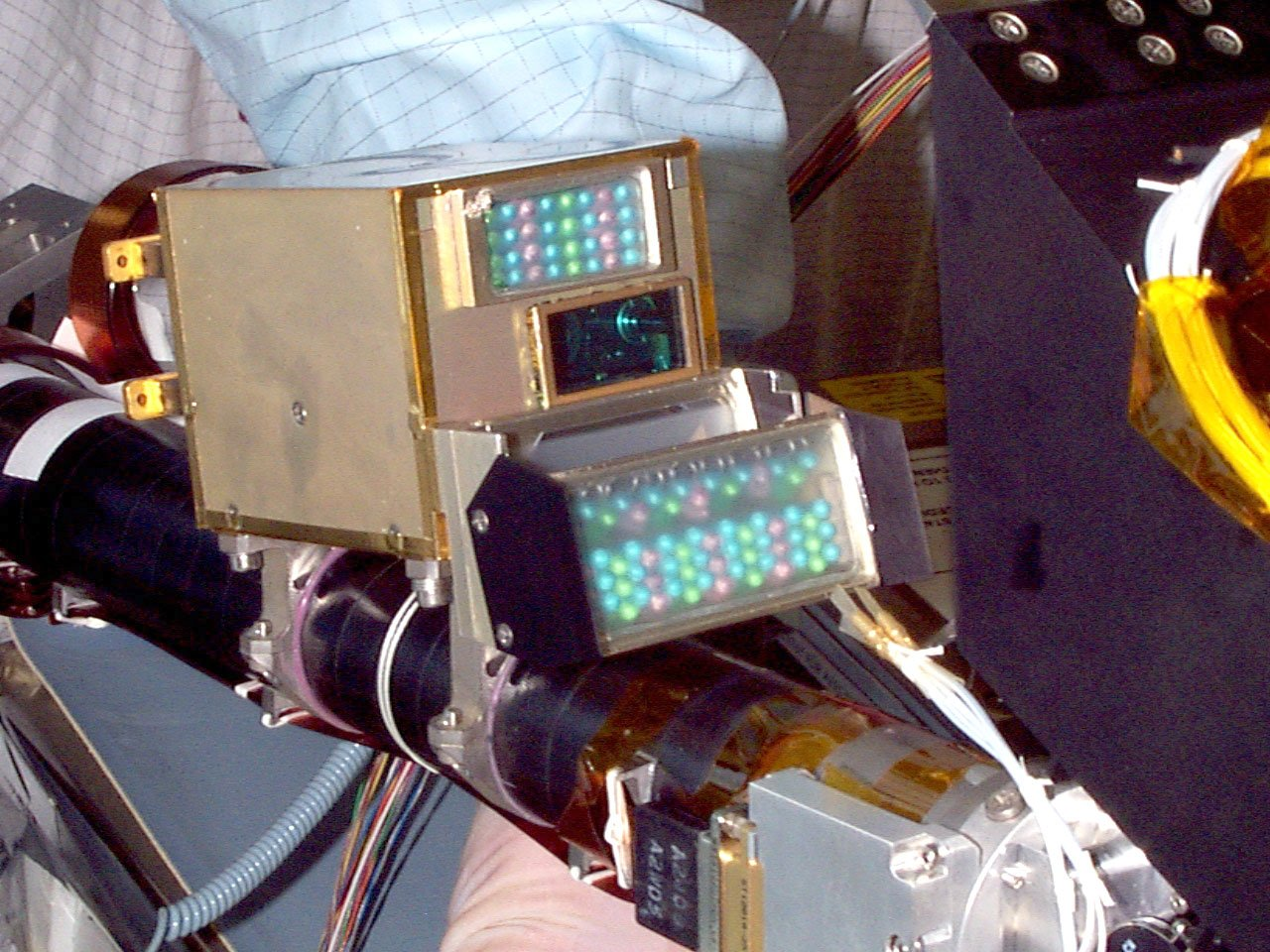 Built for the Mars Surveyor 2001 Lander, the RAC provides close-up images of soil and water-ice samples.